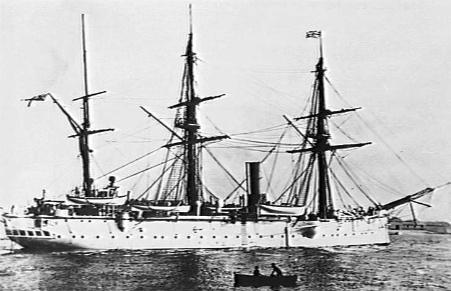 AWM caption : "STARBOARD QUARTER VIEW OF THE THIRD CLASS CRUISER HMS CORDELIA. AS SHE IS PAINTED WHITE IT WOULD APPEAR THAT THE PHOTOGRAPH WAS TAKEN PRIOR TO HER JOINING THE AUSTRALIA STATION IN 1890, WHEN SHE WOULD HAVE BEEN PAINTED IN THE USUAL BLACK, WHITE AND BUFF COLOUR SCHEME OF THE TIME."